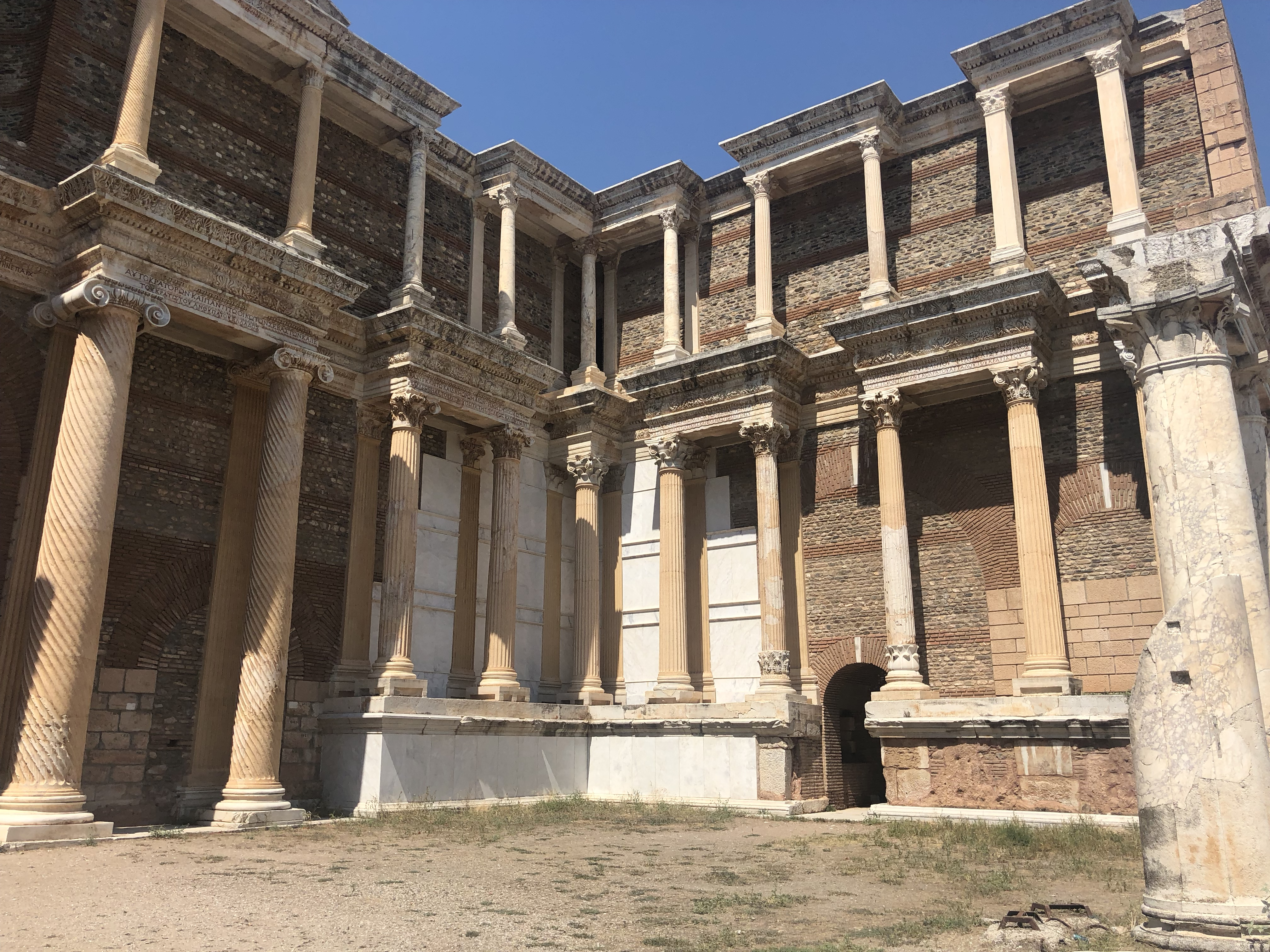 Greek gymnasium in Sardes from the inside